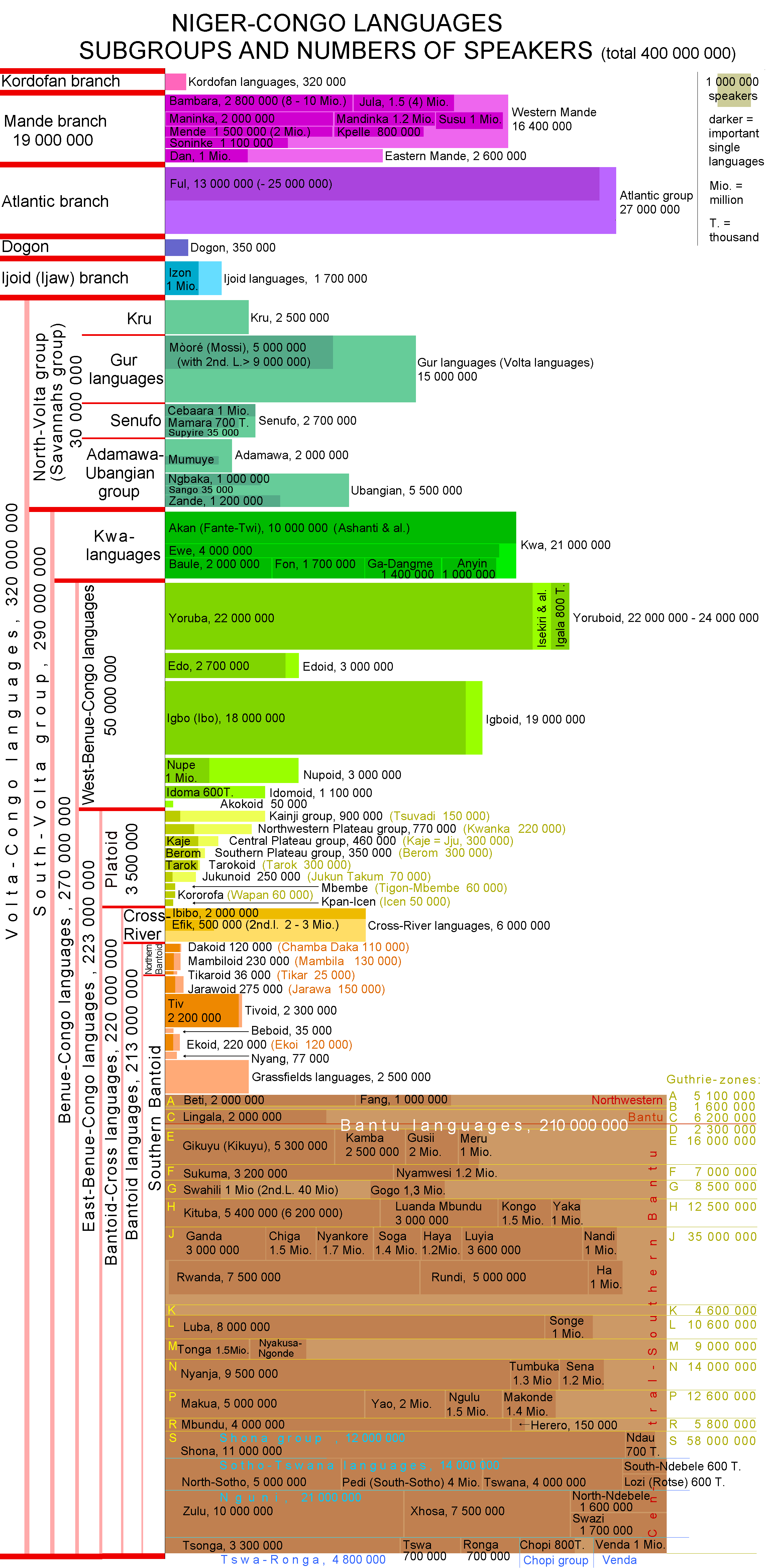 Subgroups and important single languages of the Niger-Congo family of languages.